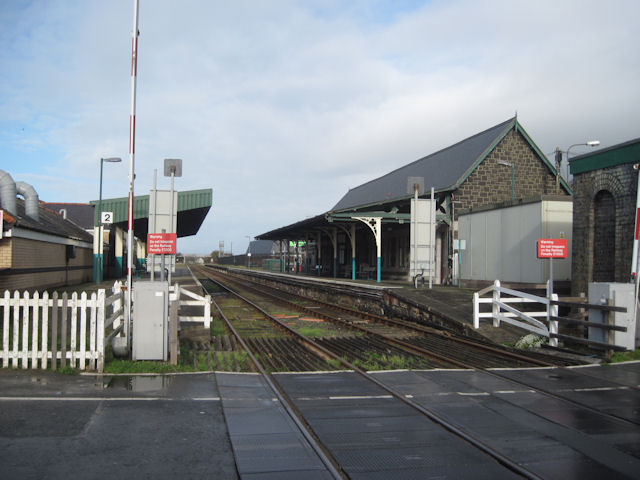 Barmouth railway station